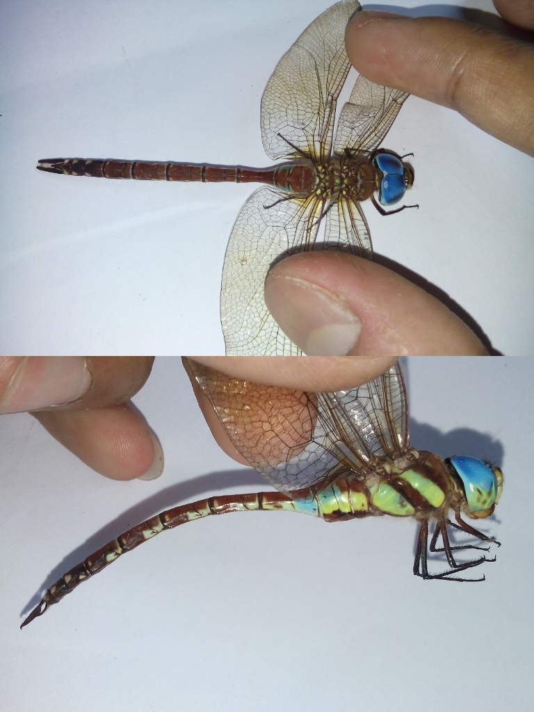 Anaciaeshna jaspidea(Burmeister, 1839), Aeshnidae Family